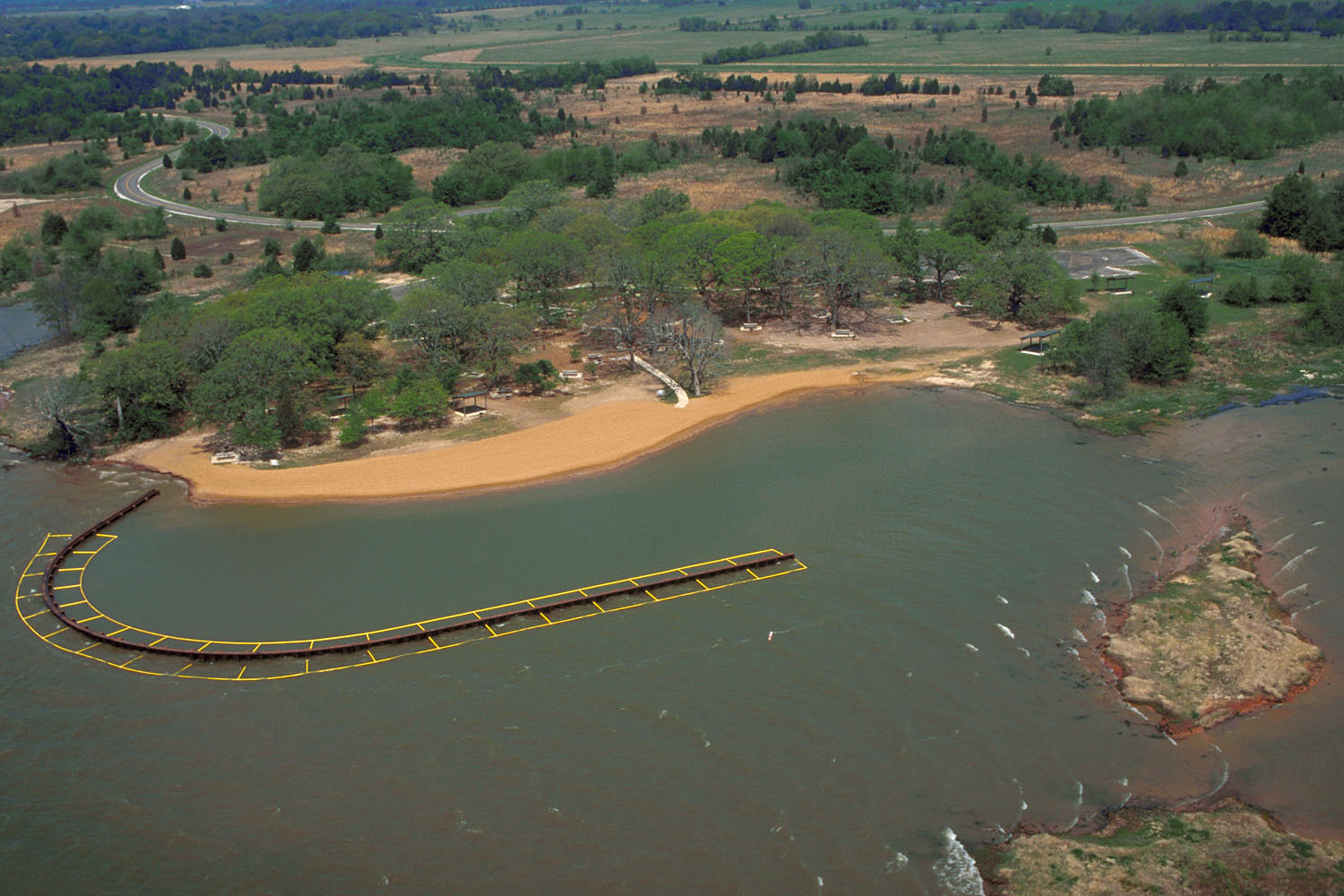 A swimming area at Cooper Lake State Park in Delta and Hopkins Counties, Texas, USA. The state park is located on Jim Chapman Lake, formerly known as Cooper Lake.